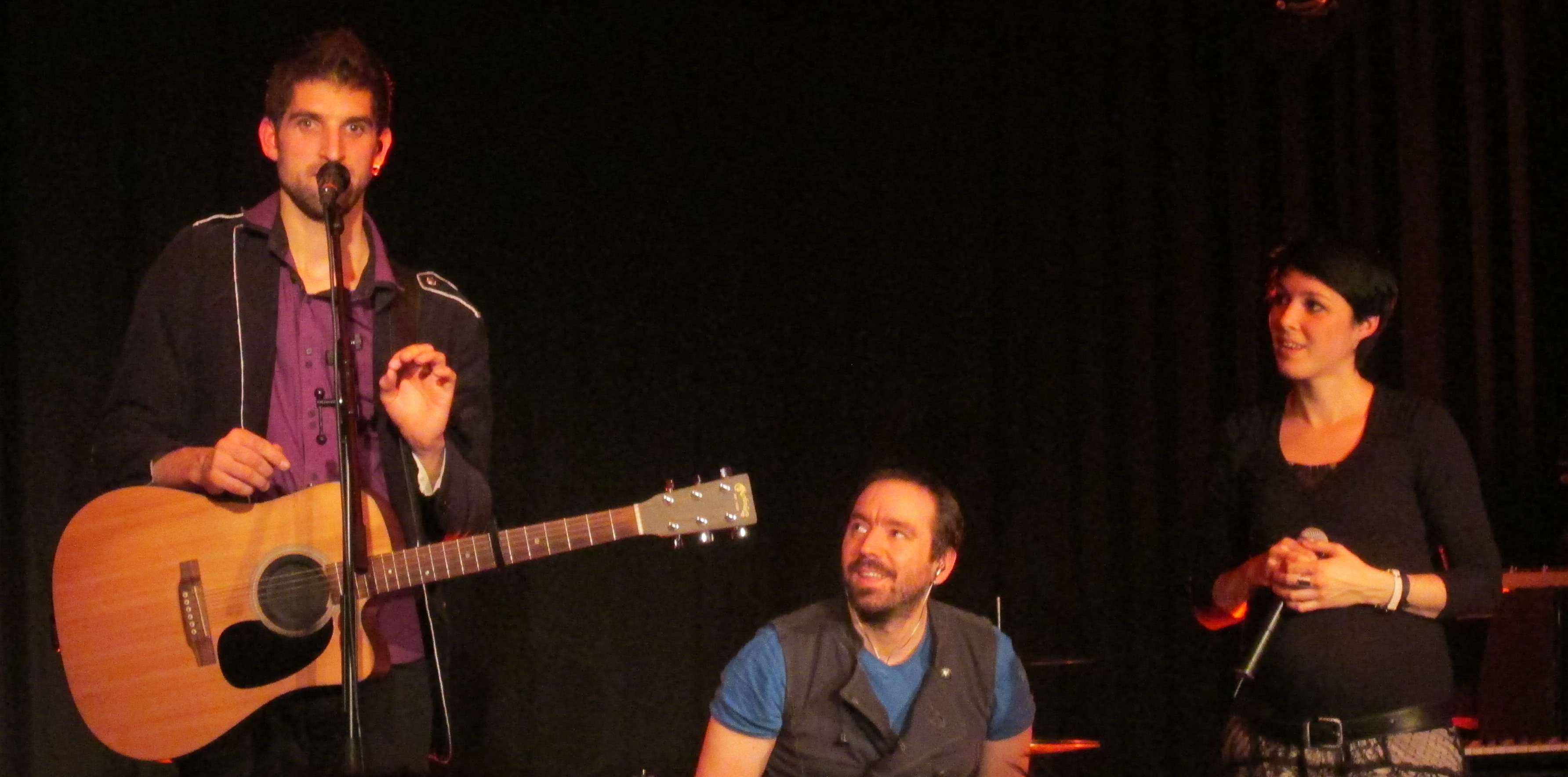 Carrousel (Léonard Gogniat, Thierry Cattin, Sophie Burande) at a concert in Göttingen check usage